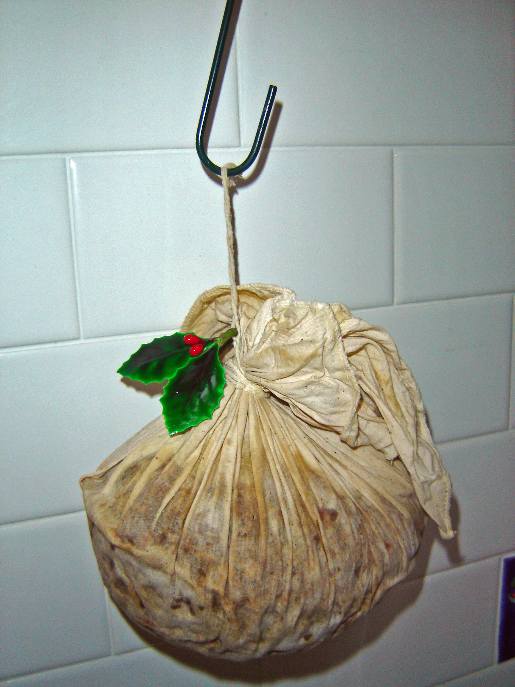 A Christmas pudding hanging on a hook to dry.